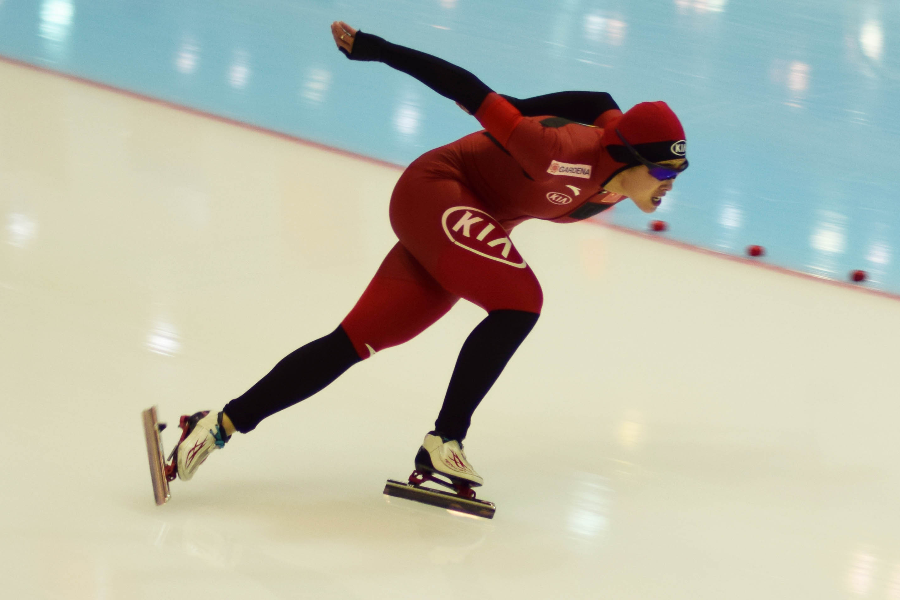 2016 World Single Distance Speed Skating Championships